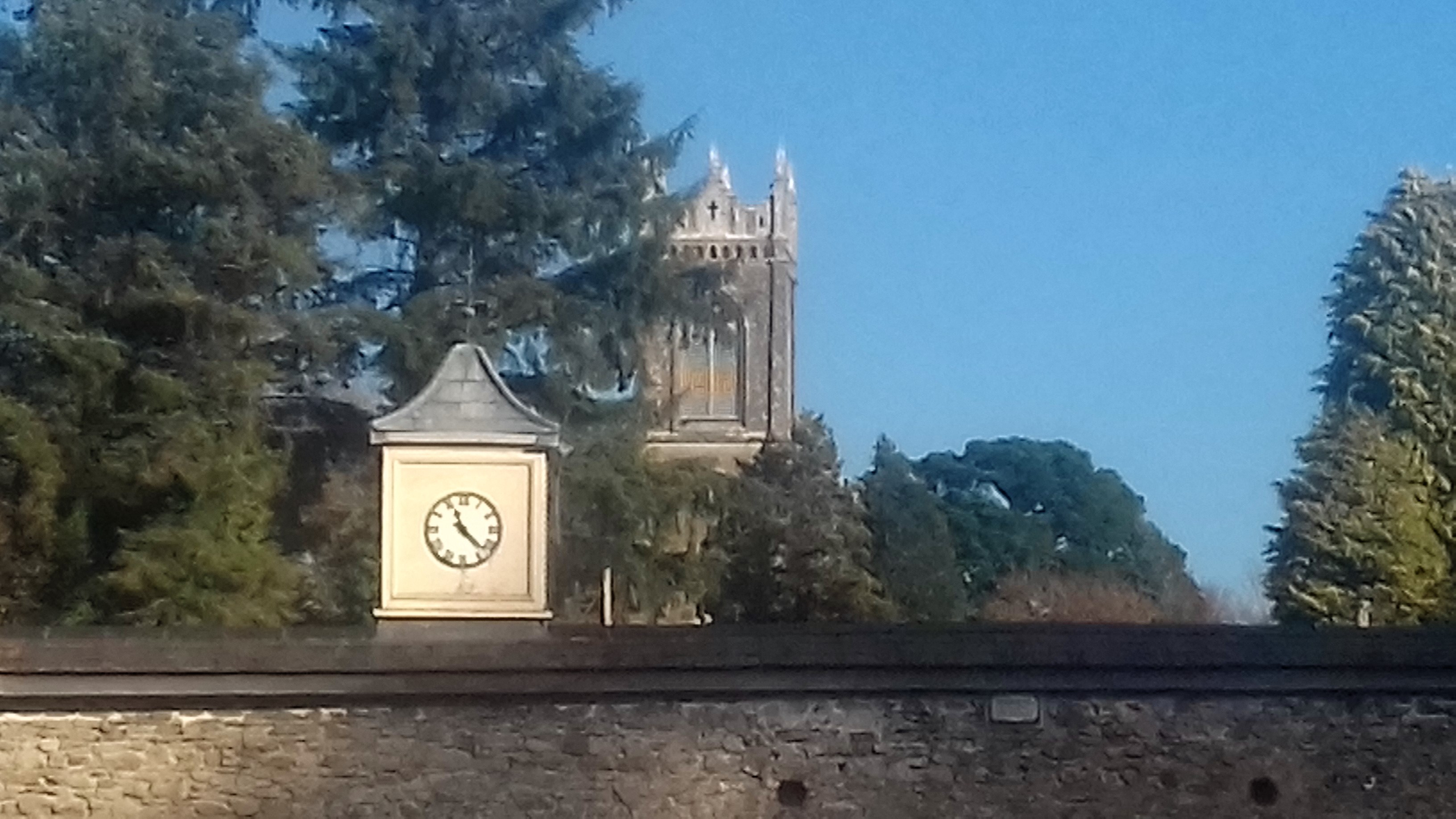 View of the clock tower in the work yard of the Wandesforde Estate in Castlecomer, County Kilkenny. Also visible is the spire of St Mary's Church by the N78 road. Taken from the car park of the Castlecomer Discovery Centre. Oct 31st 2018.